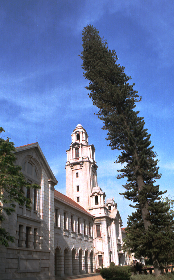 Uploaded on May 17, 2006 by Flickr User sumanc Uploaded to wiki by user:nikkul